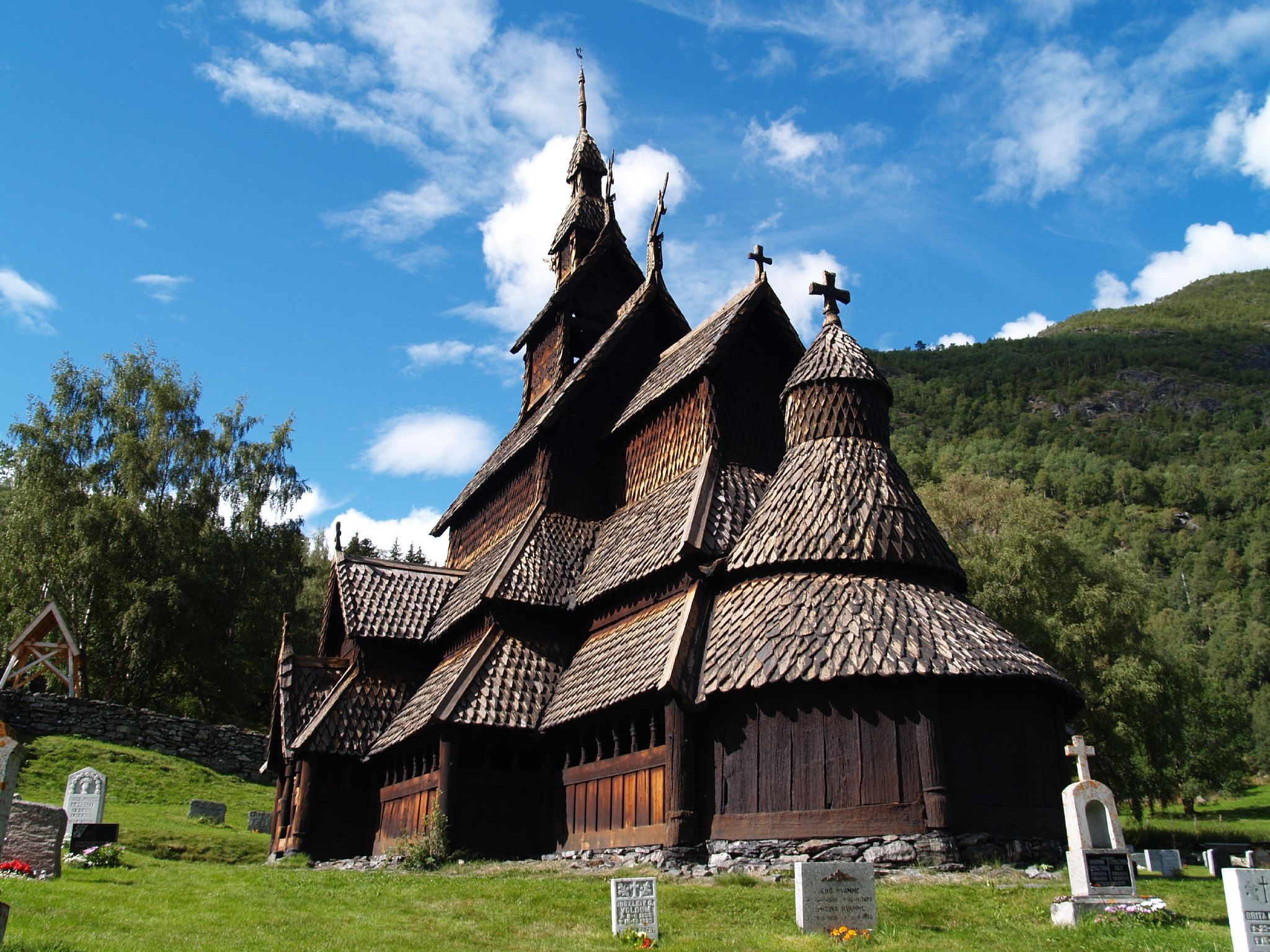 Built just before 1150, and dedicated to the Apostle St. Andrew. It is one of the best preserved stave churches and it has not been added or rebuilt since it was new.